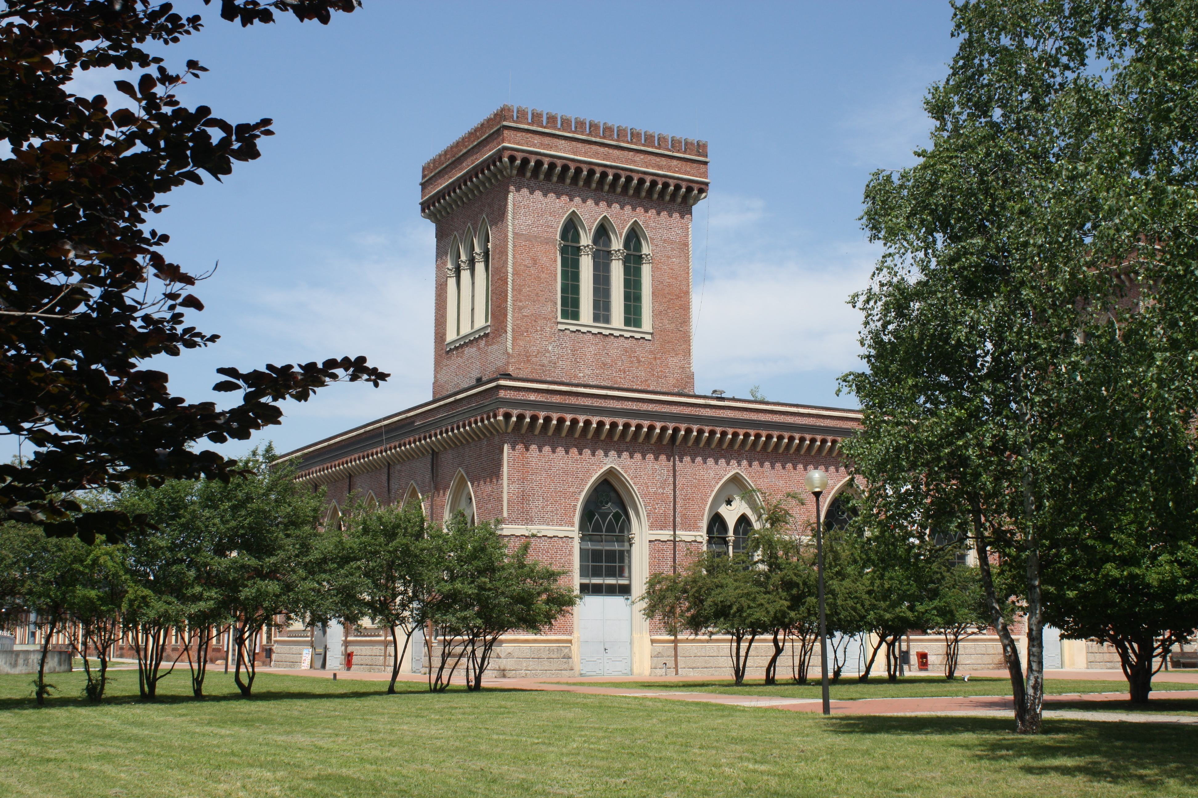 Former Cotonificio Bustese - Museo del tessile e della tradizione industriale in Busto Arsizio, Italy.